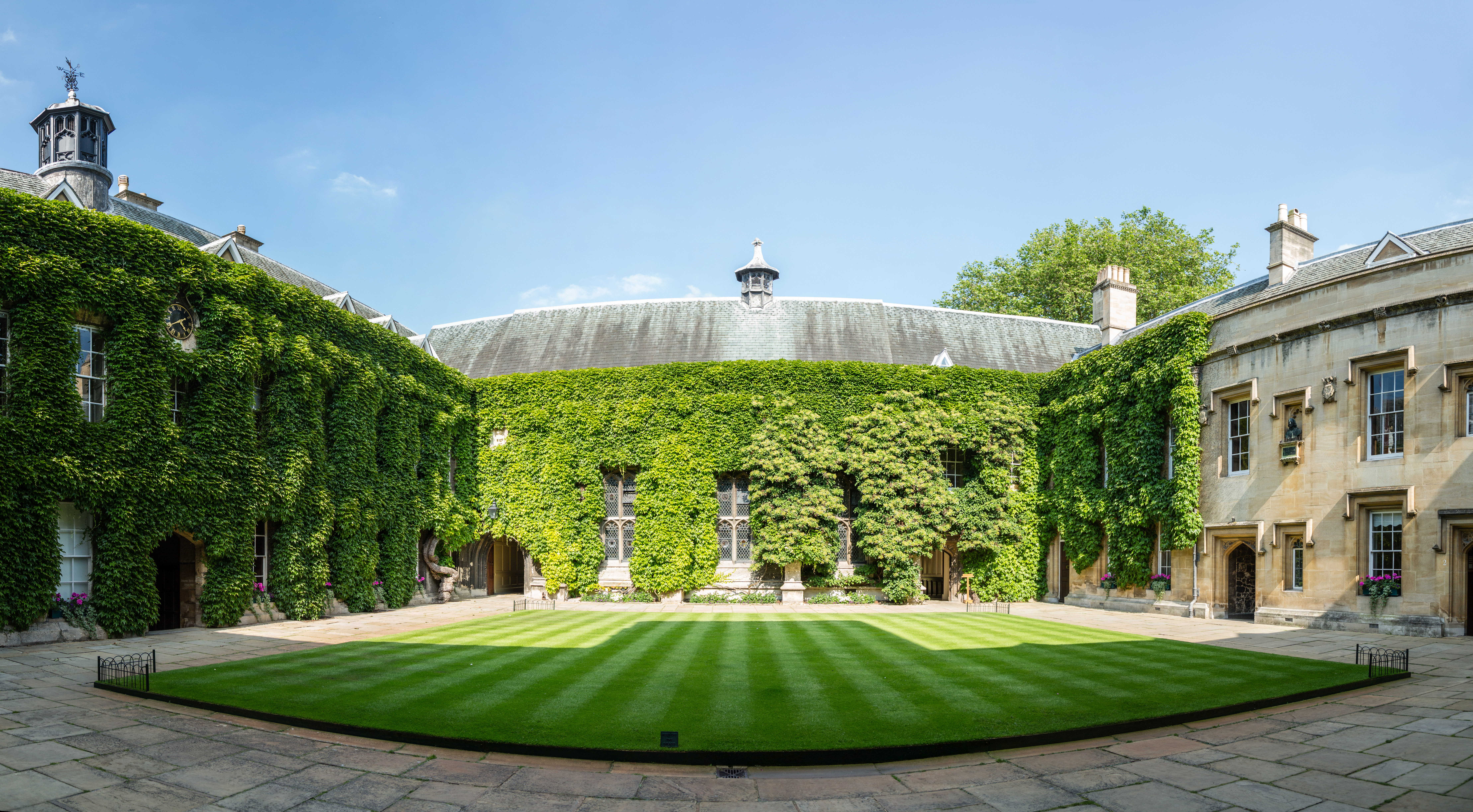 A panoramic view of Lincoln College's quadrangle.